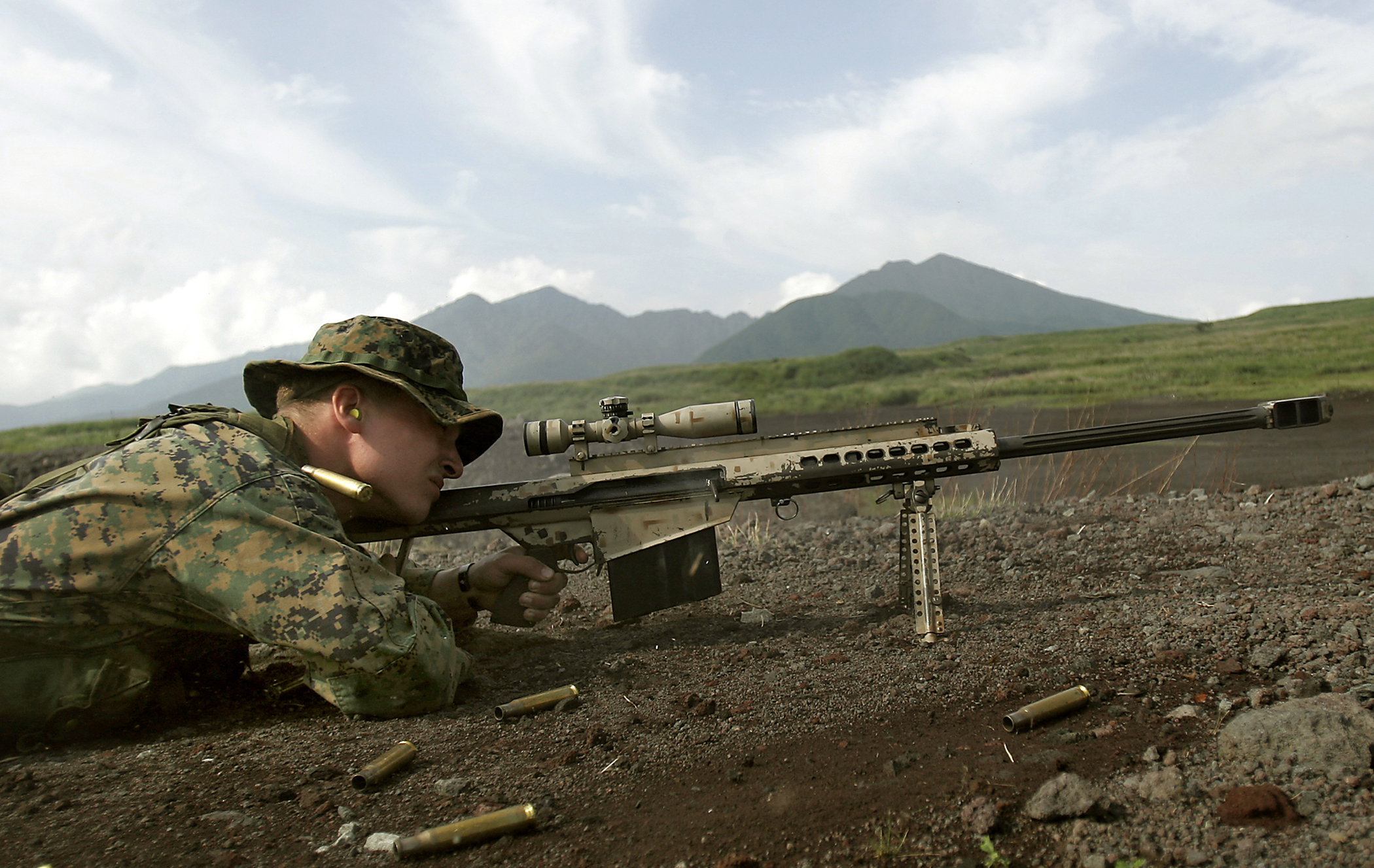 COMBINED ARMS TRAINING CENTER CAMP FUJI, Japan – Corporal Dustin Hill, a scout sniper team leader with sniper platoon, Headquarters and Services Company, 1st Battalion, 5th Marine Regiment, the 31st Marine Expeditionary Unit’s Battalion Landing Team, fires a round downrange from an M82A3 .50-caliber special application scoped rifle here August 31. Snipers worked alongside the BLT’s combined anti-armor teams conducting various scenarios in sharpening heavy-machine gun and maneuvering skills.